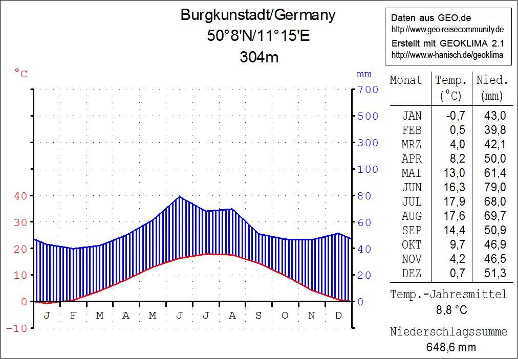 Climate chart in the Walter and Lieth format, metric, °Celsius und millimeters, made with Geoklima 2.1